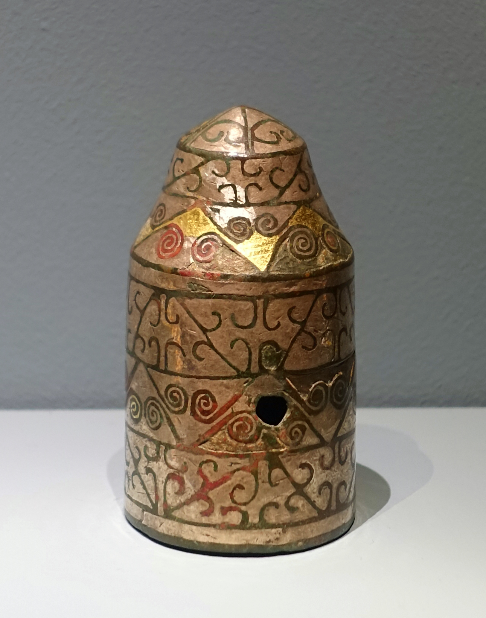 Exhibit in the Middlebury College Museum of Art - Middlebury, Vermont, USA.